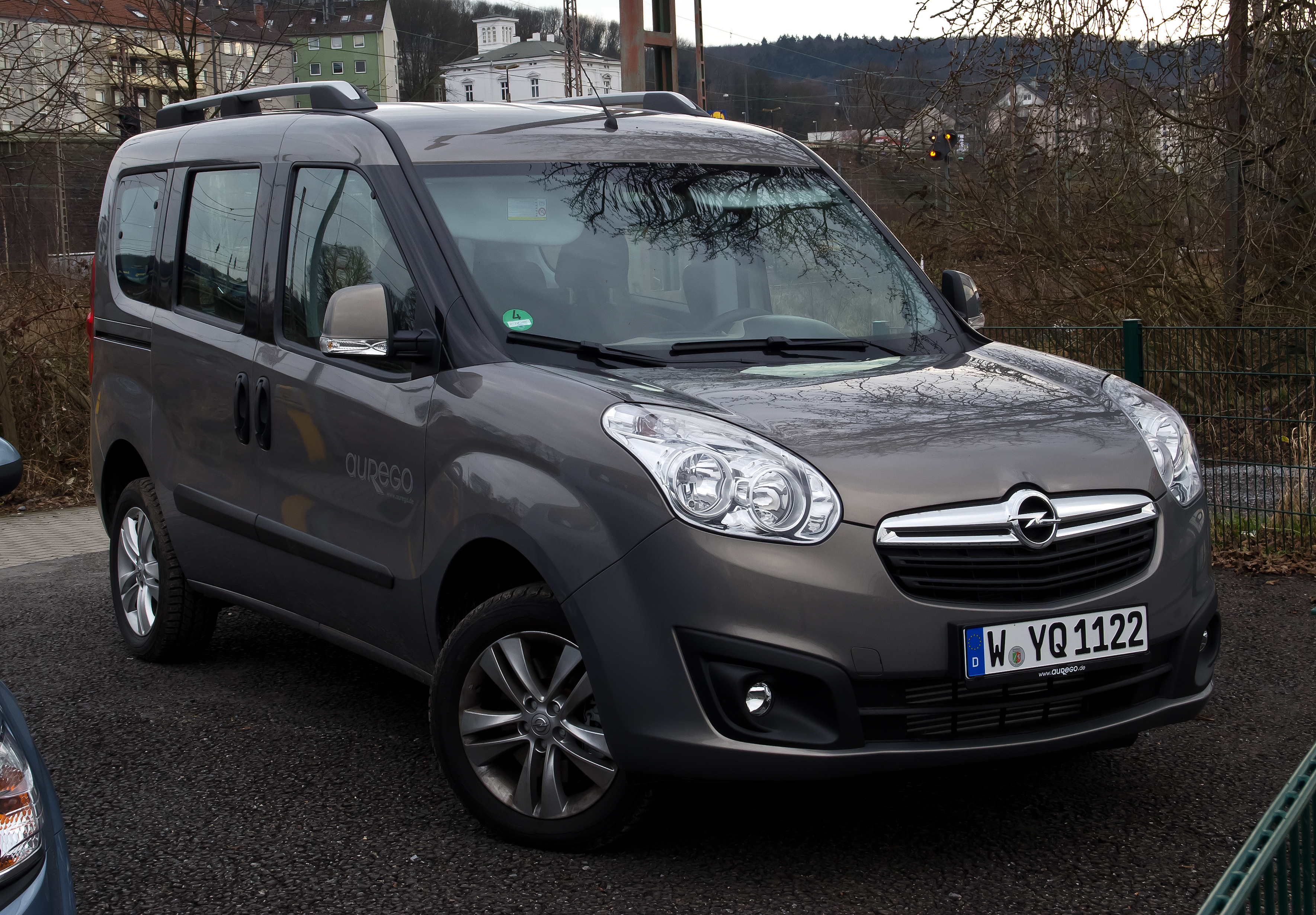 Opel Combo 1.6 CDTI Edition (D)